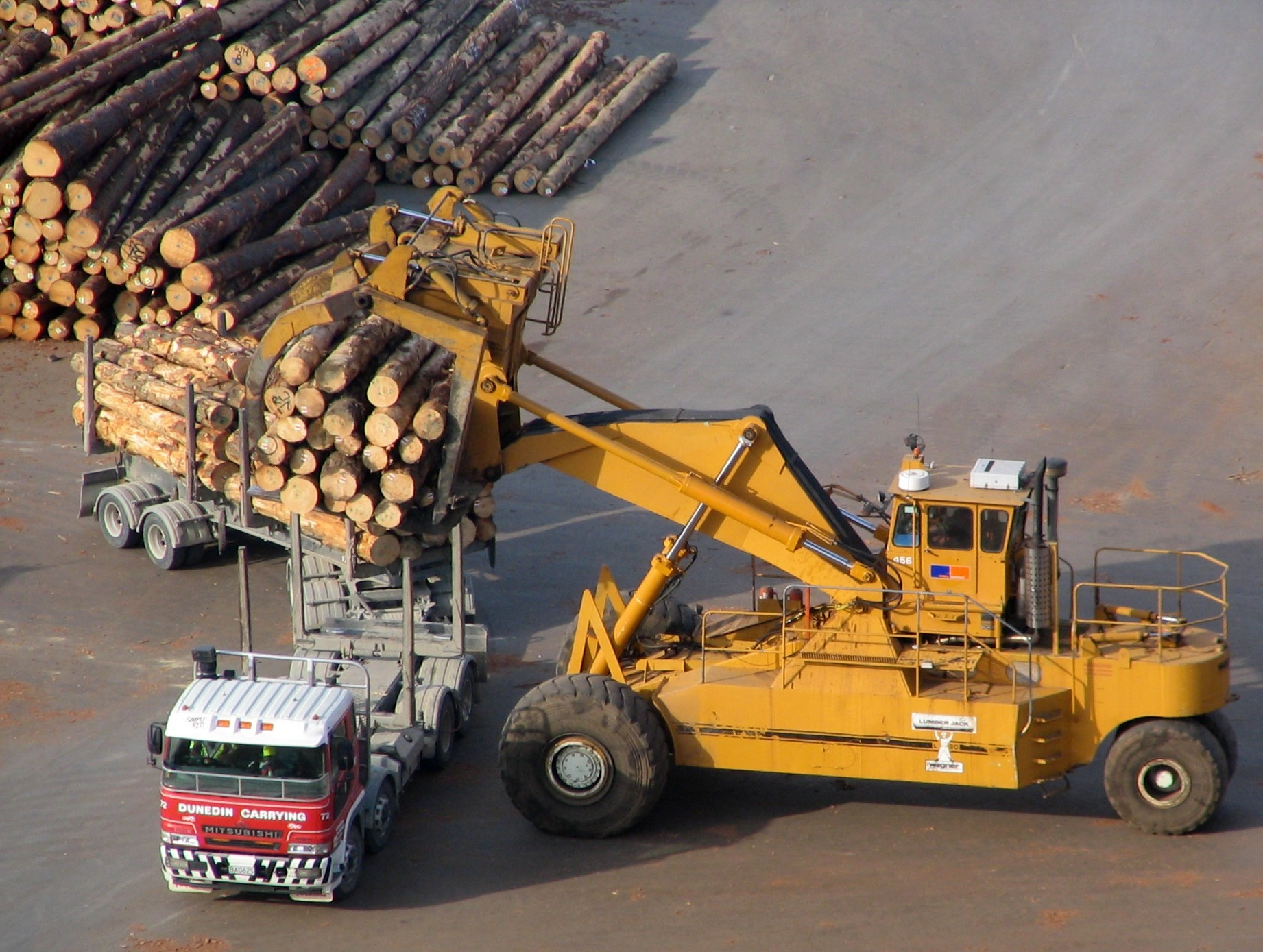 A logstacker (a type of reach stacker) lifting logs off a truck at Port Chalmers wharf, Dunedin, New Zealand.